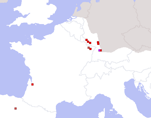 Distribution of epigraphic dedications to Mercurius Visucius (or just Visucius at Heidelberg, Visucius Solitumarus at Phalsbourg) in Gaul and Hispania. The greyish red indicates variant spellings (Visugius in today's La Rioja, Visuclus in today's Alsace). The inscription at Köngen includes a dedication to both Mercurius Visucius and sancta Visucia; it is shown as red and pink. (Note: A dedication to Mercurius Viducus – which might possibly be cognate with Visucius – from Bordeaux has not been shown.)